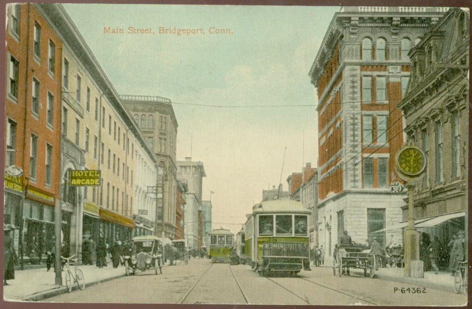 Postcard picture of Main Street in Bridgeport, Connecticut; 1912 postmark; published by Danziger and Berman, New Haven, Conn.